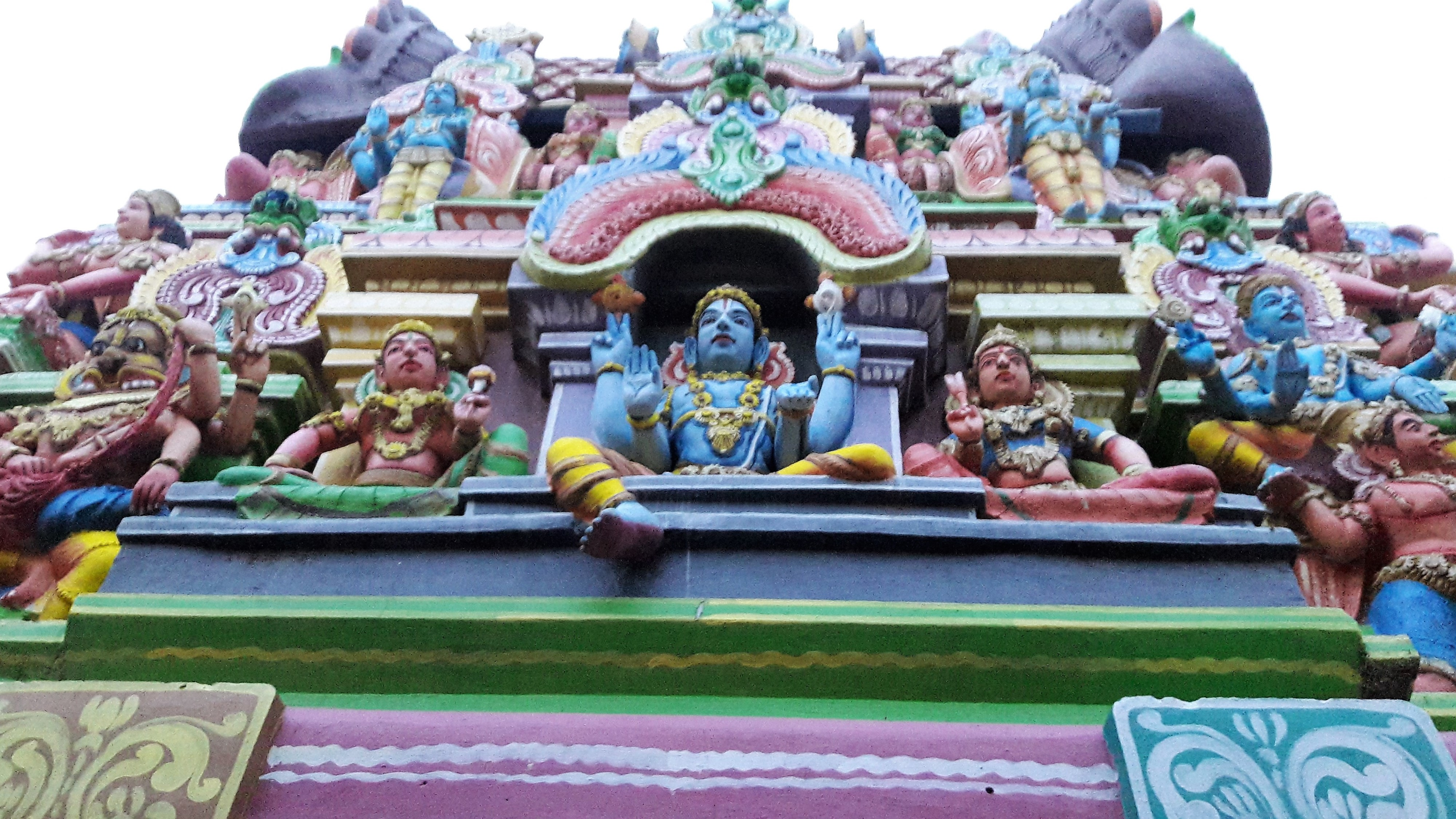 Kola Valvill Ramar Temple, Tiruvelliyangudi